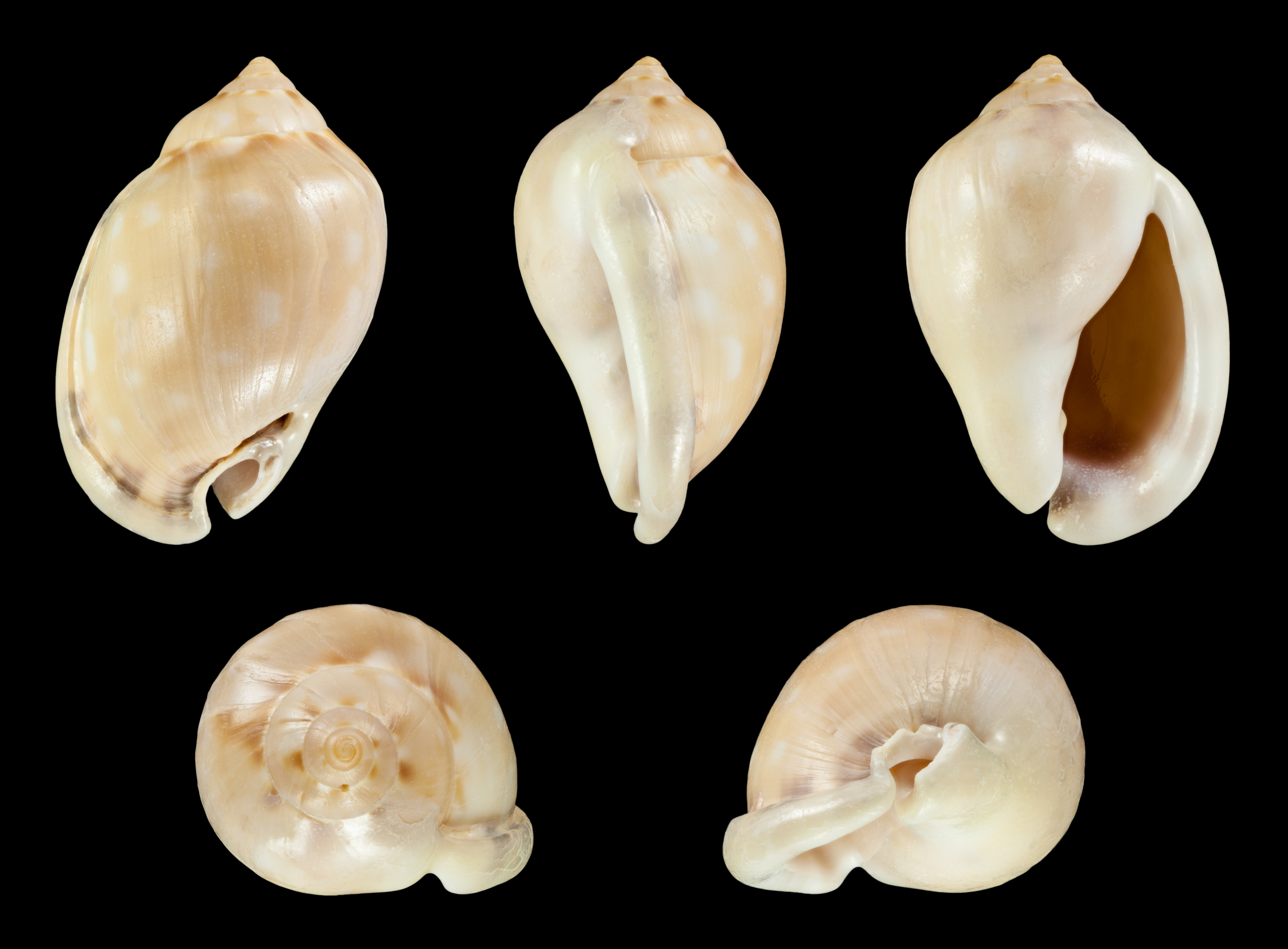 Semicassis labiata iredalei (Bayer, 1935); Length 4.4 cm; Originating from the Jeffreys Bay, South Africa. Shell of own collection, therefore not geocoded.